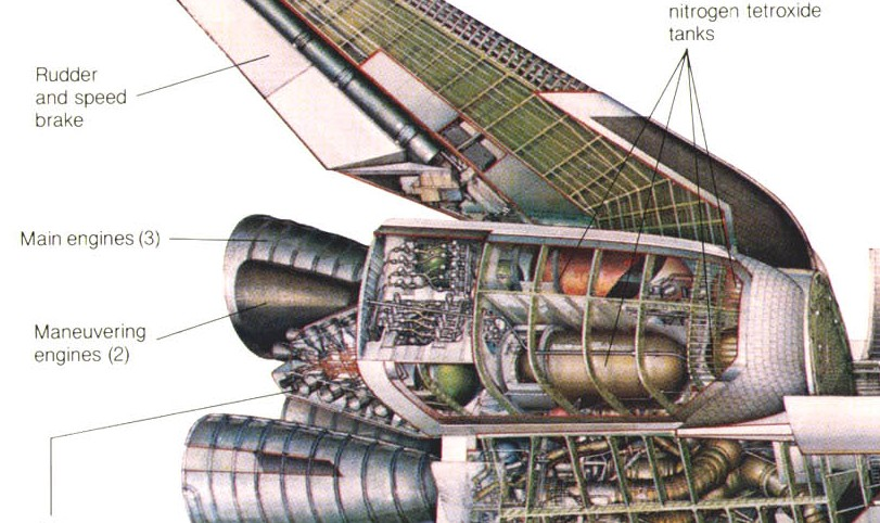 A cutaway diagram of the right OMS/RCS pod of a Space Shuttle Orbiter.